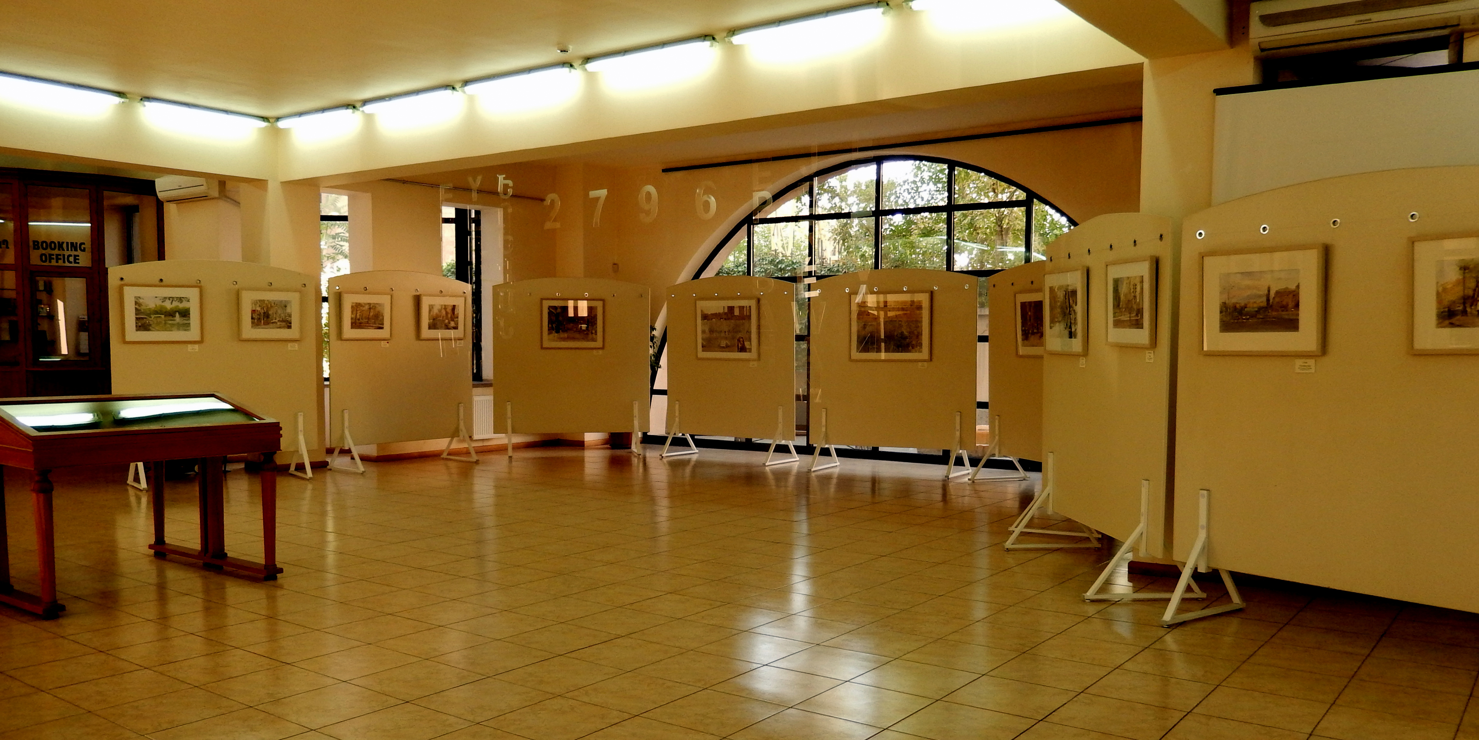 Peto Poghosyan exhibition